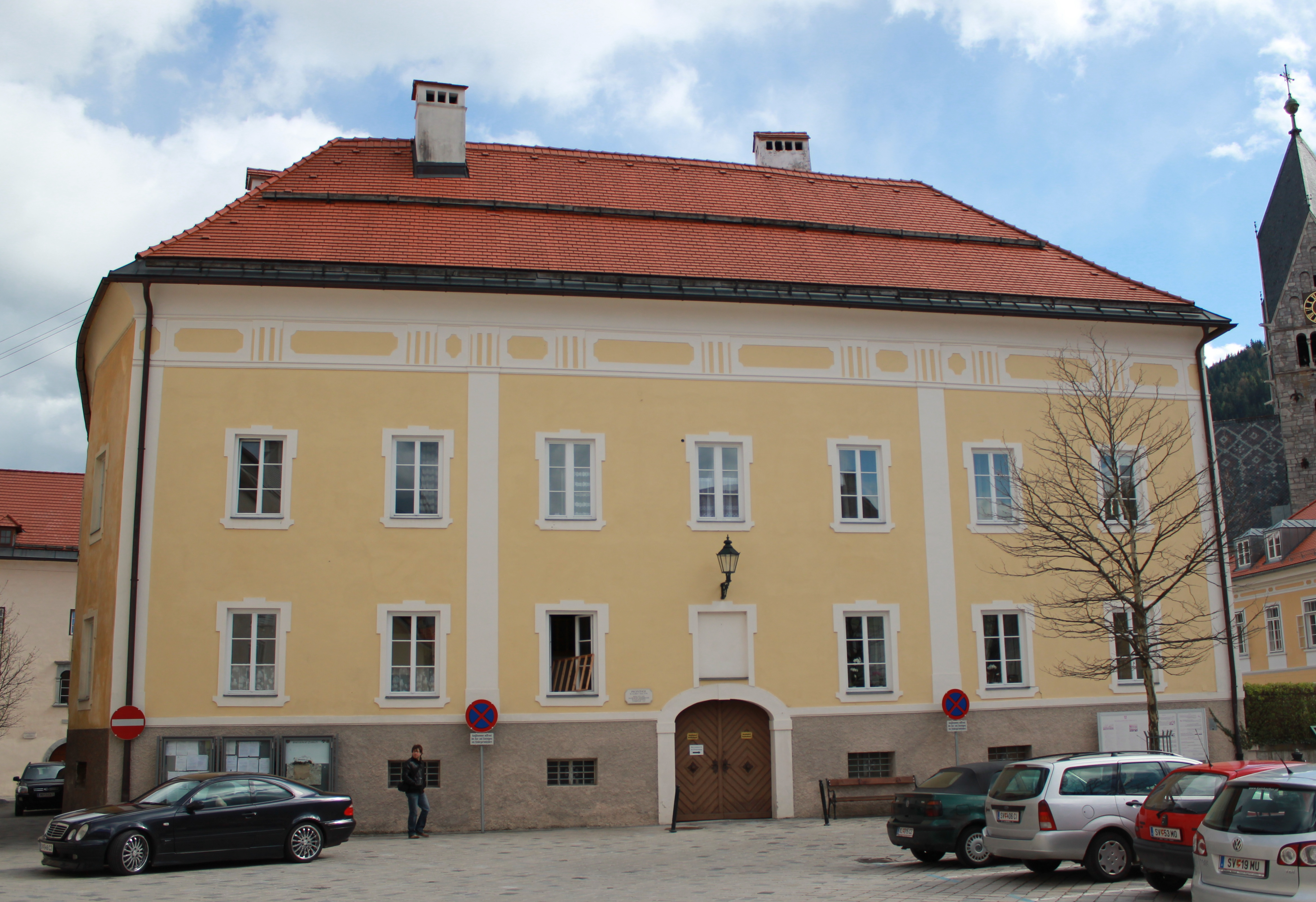 Propsteihof in Friesach